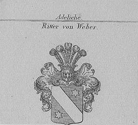 Original Grant of Arms to George Michael Ritter von Weber (1813)